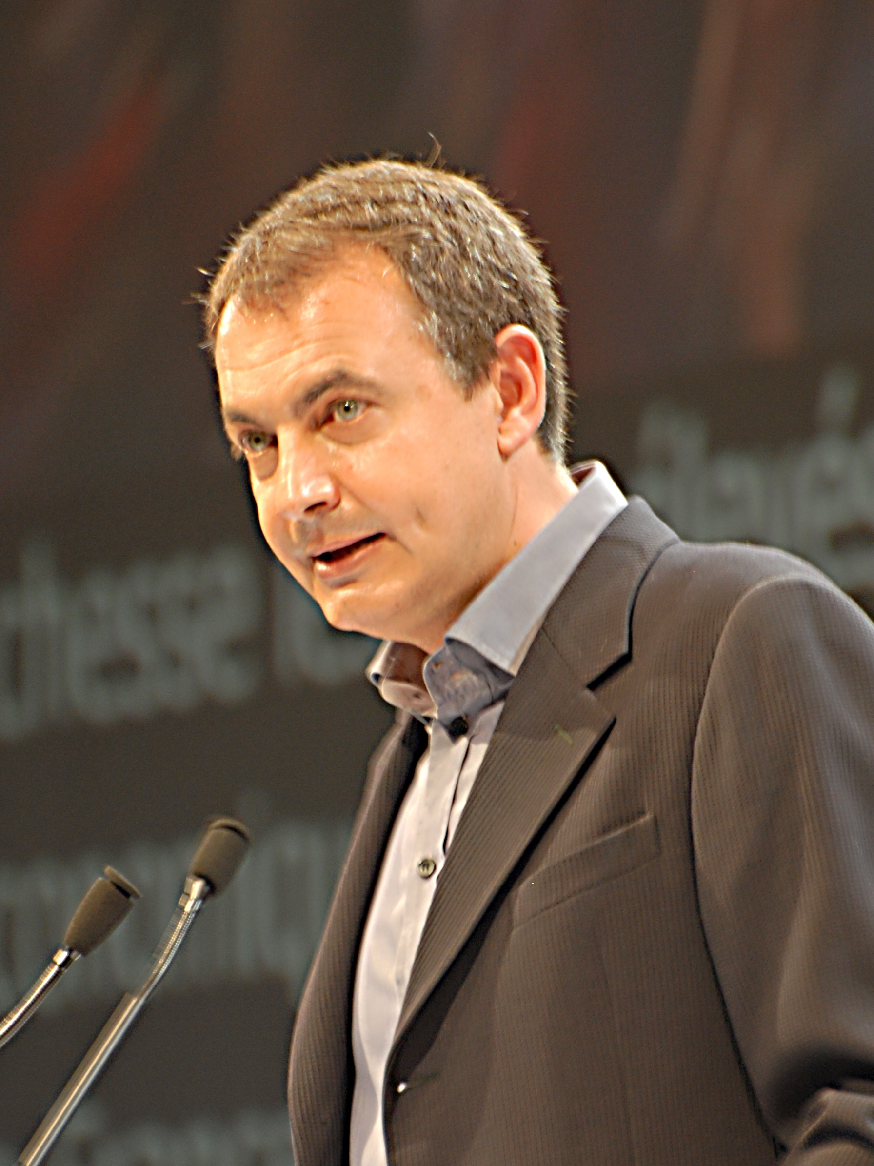 José Luis Rodríguez Zapatero during his meeting in Toulouse on April, 19th 2007 for the 2007 presidential election.